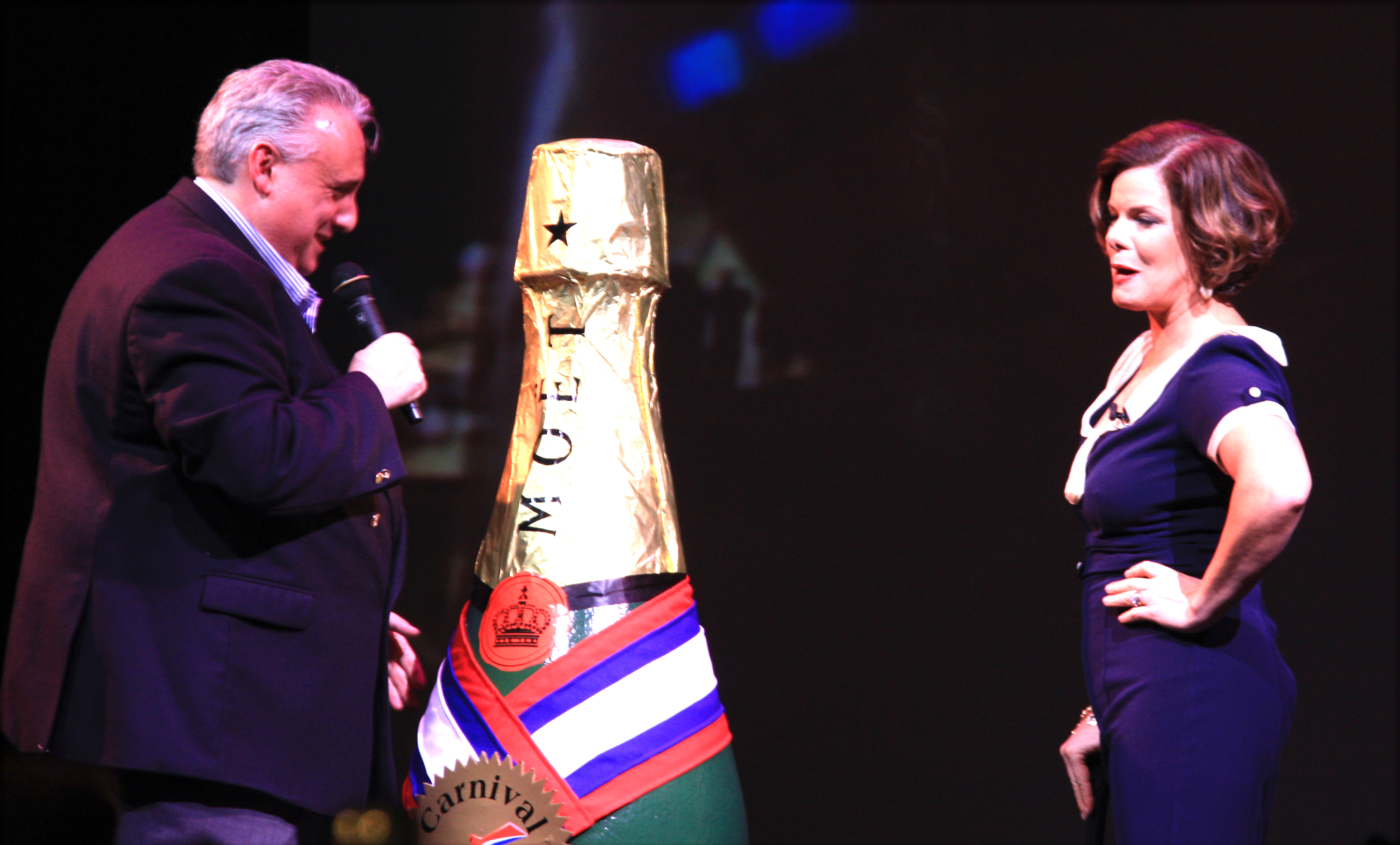 John Heald introduces actress Marcia Gay Harden as she prepares to name the cruise ship Carnival Dream